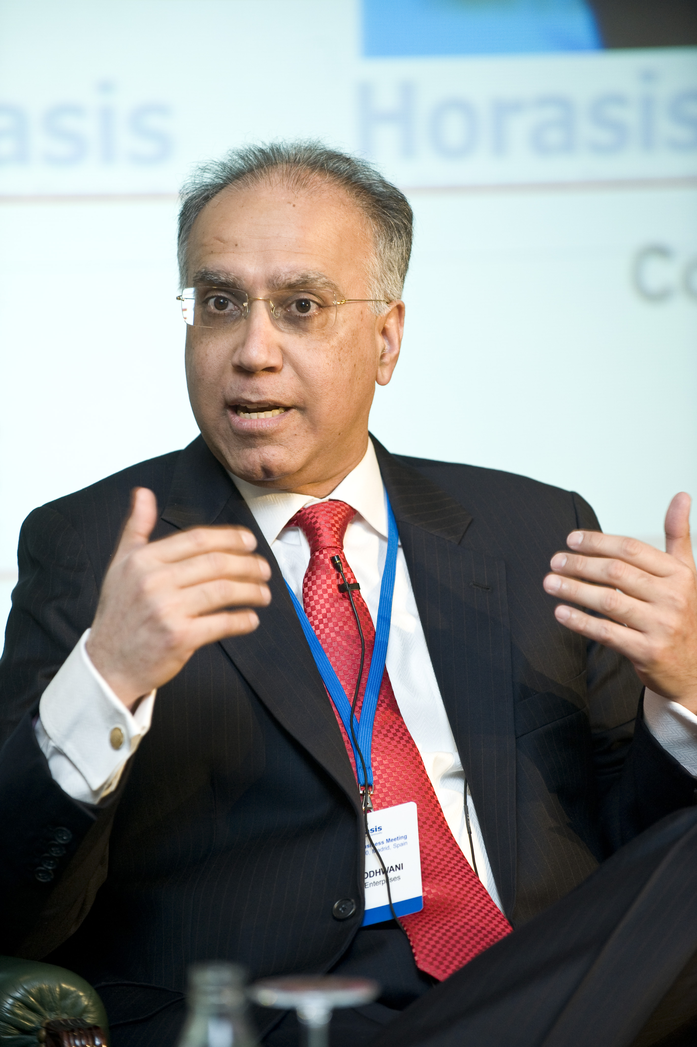 Sunil Godhwani, Chairman and Managing Director, Religare Enterprises, at the 2010 Horasis Global India Business Meeting, on India’s impact on global growth